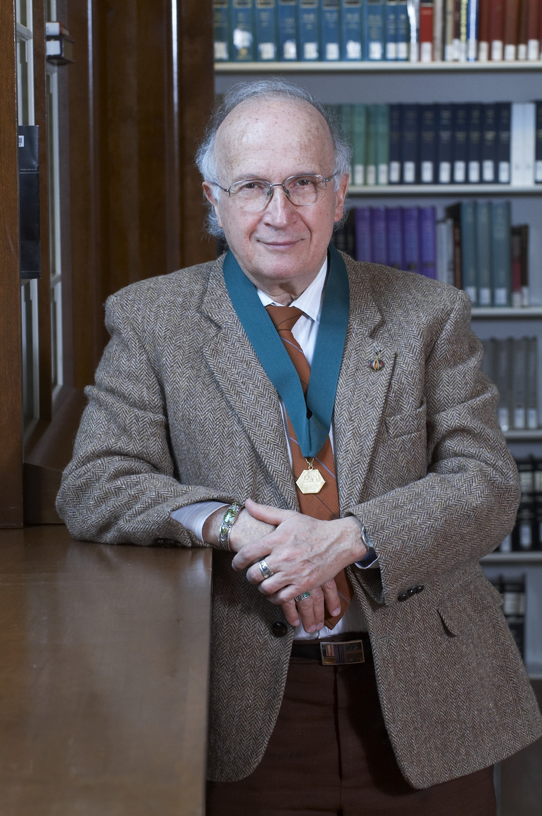 Photograph of Roald Hoffmann, with the American Institute of Chemists Gold Medal, awarded 2006, at the Chemical Heritage Foundation.